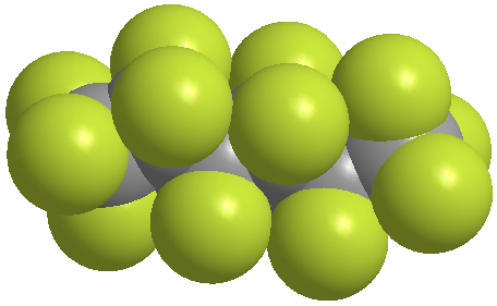 PerfluorohexanoBalls